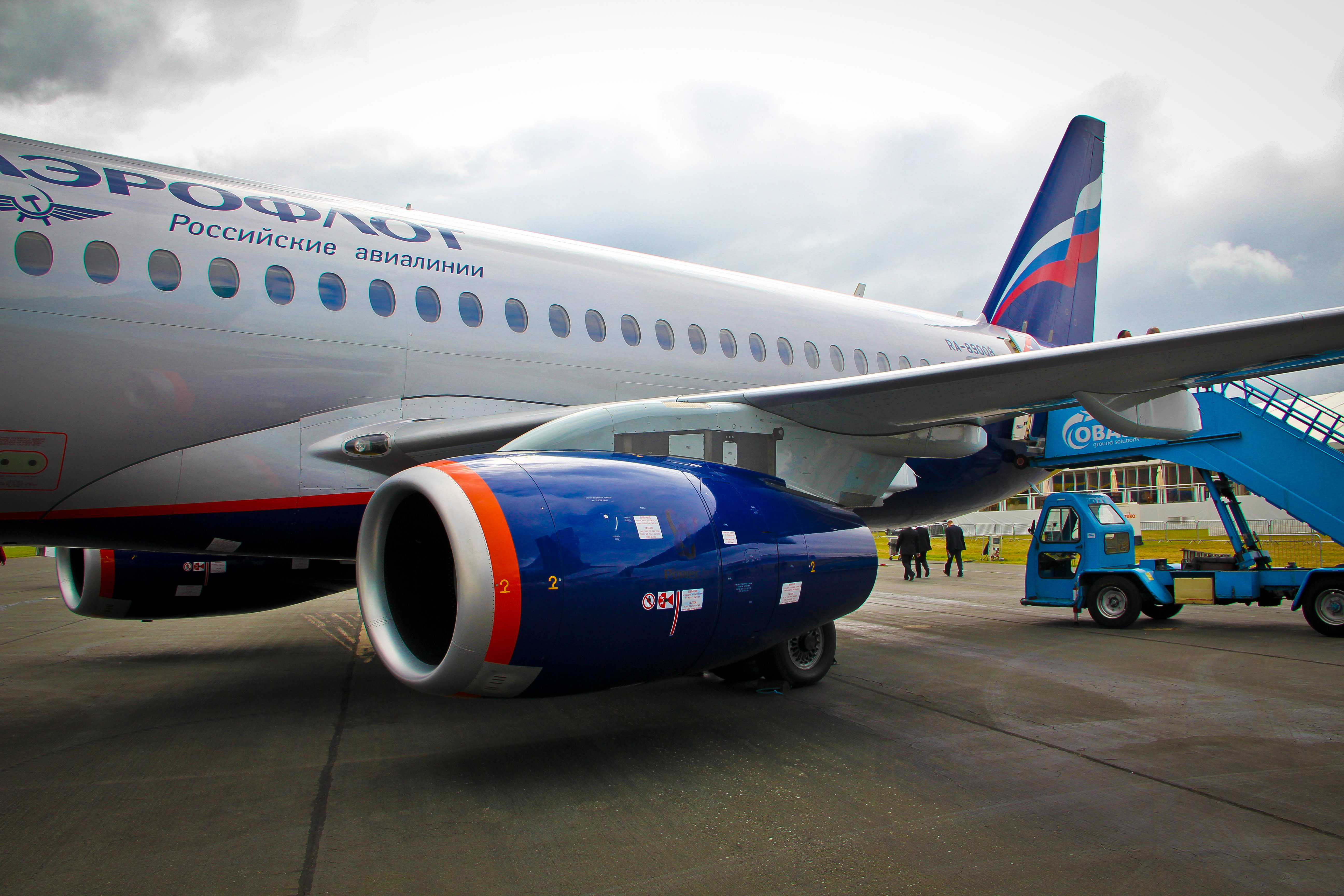 Sukhoi Civil Aircraft Company (SCAC) jointly with leading Russian companies, members of the United Aircraft Corporation (UAC), participated in the 48th International Airshow Farnborough 2012 held in London from 9 to 15 of July 2012. One of the Aeroflot’s Sukhoi Superjet 100 (SSJ100) was displayed for the first time at an international airshow. The aircraft MSN 95016 was viewed and visited in the static display and it was much appreciated by the participants and guests of the airshow. SCAC’s exhibit located on the UAC stand in Hall A, also attracted the attention of a great number of visitors. Read More